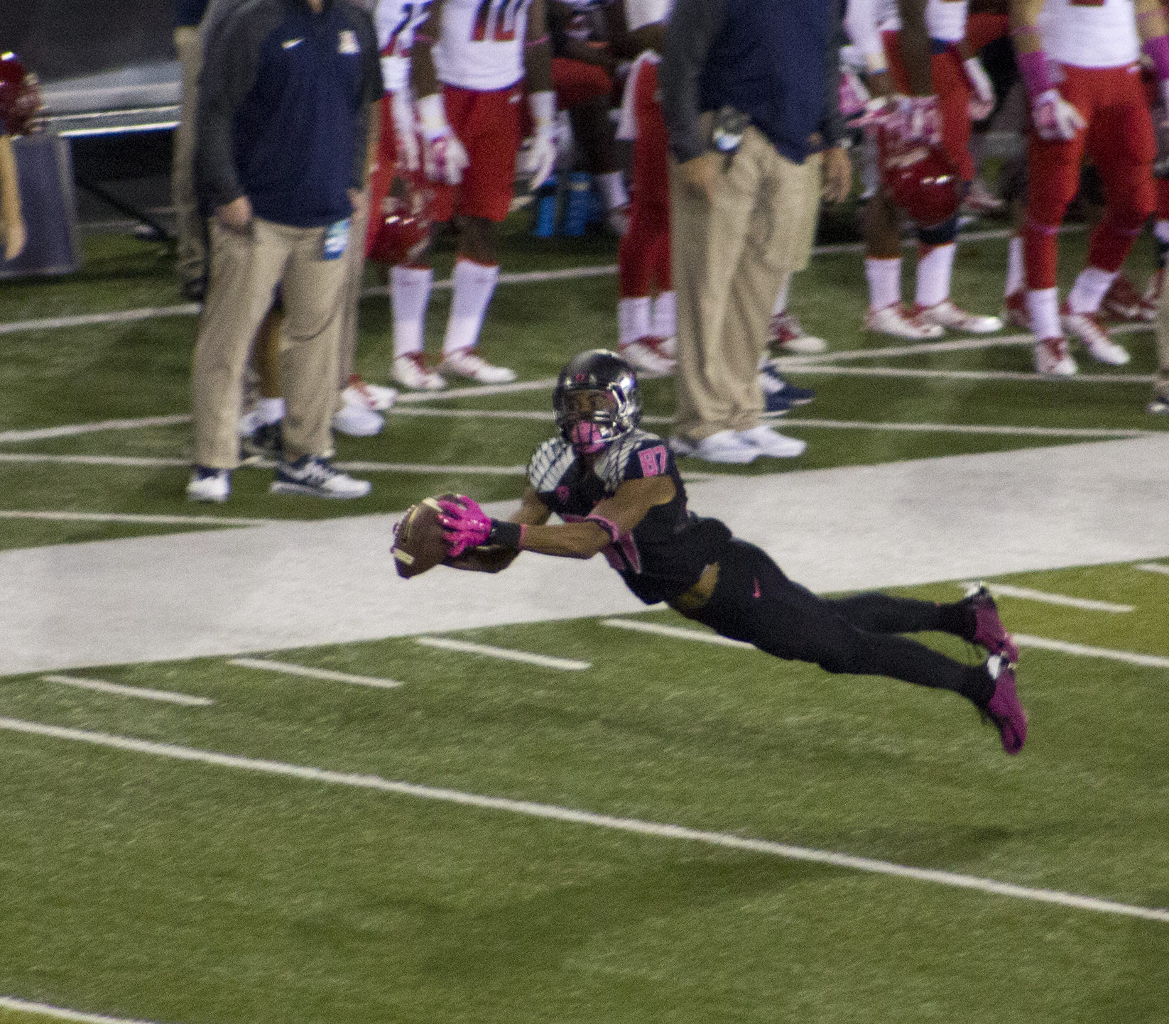 Darren Carrington catches a pass against Arizona in 2014.